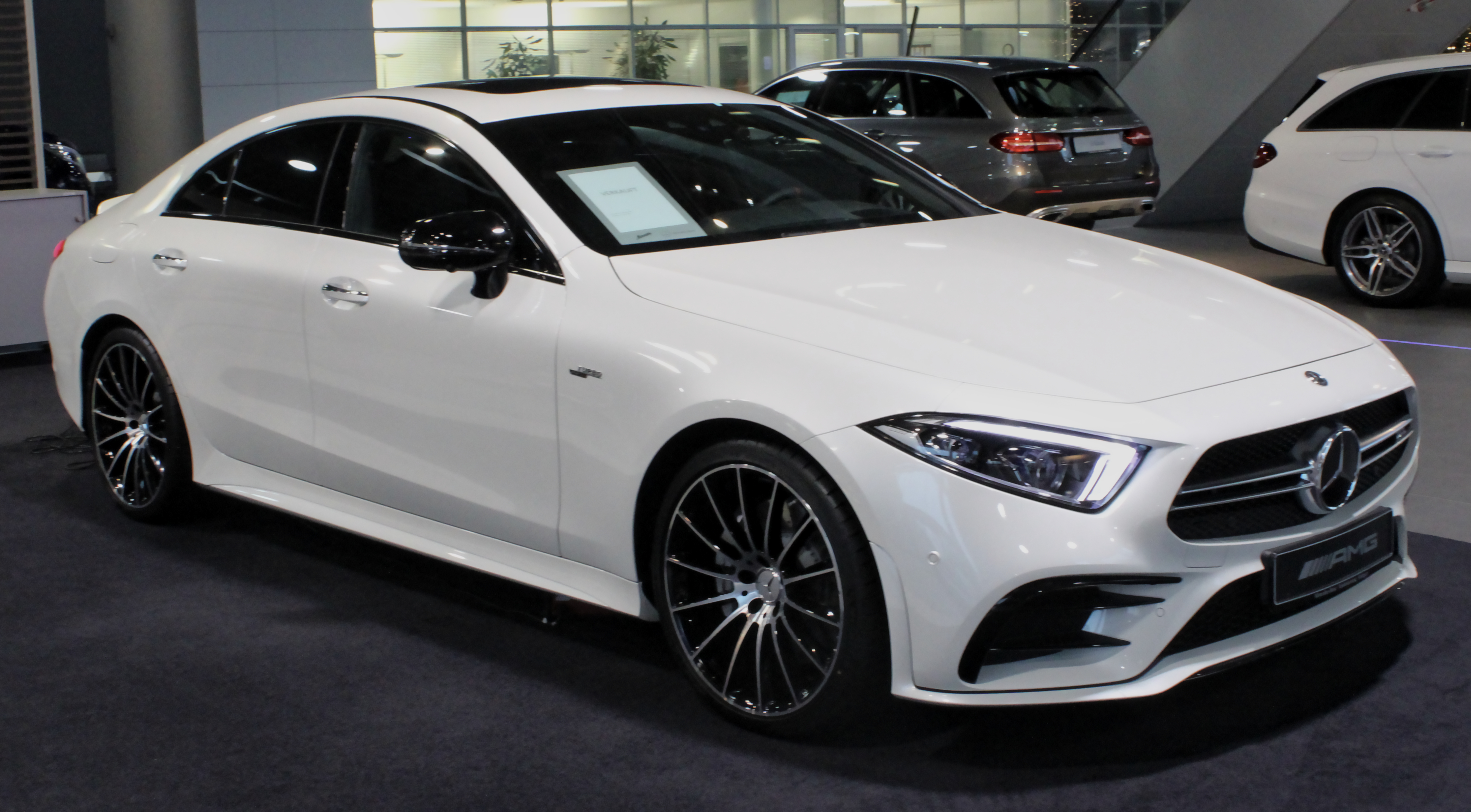 Mercedes-AMG CLS 53